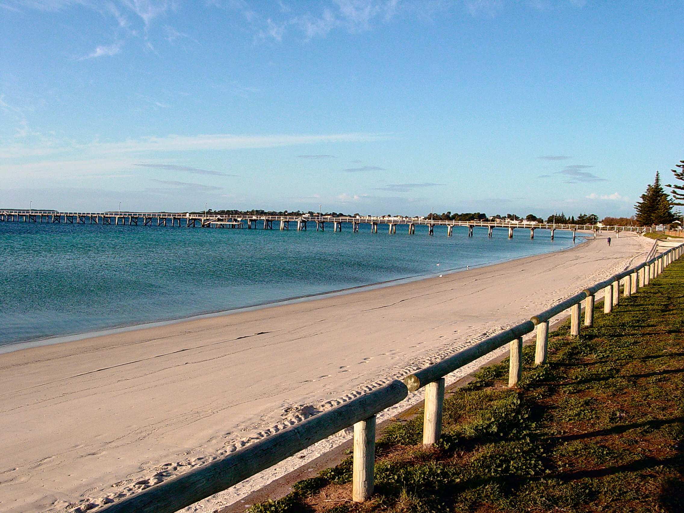 Photo taken and supplied by Brian Voon Yee Yap. Tumby Bay, South Australia